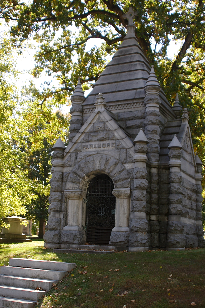 Paramore family Mausoleum, Bellefontaine and Calvary Cemeteries, St. Louis, Missouri